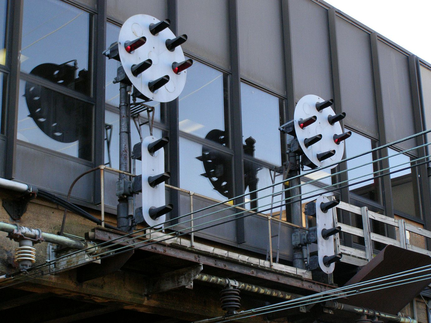 Color position lights on the concourse gantry at Trenton Station on Amtrak's Northeast Corridor. Tracks govern westward movements on 3 and 2 track at FAIR interlocking.